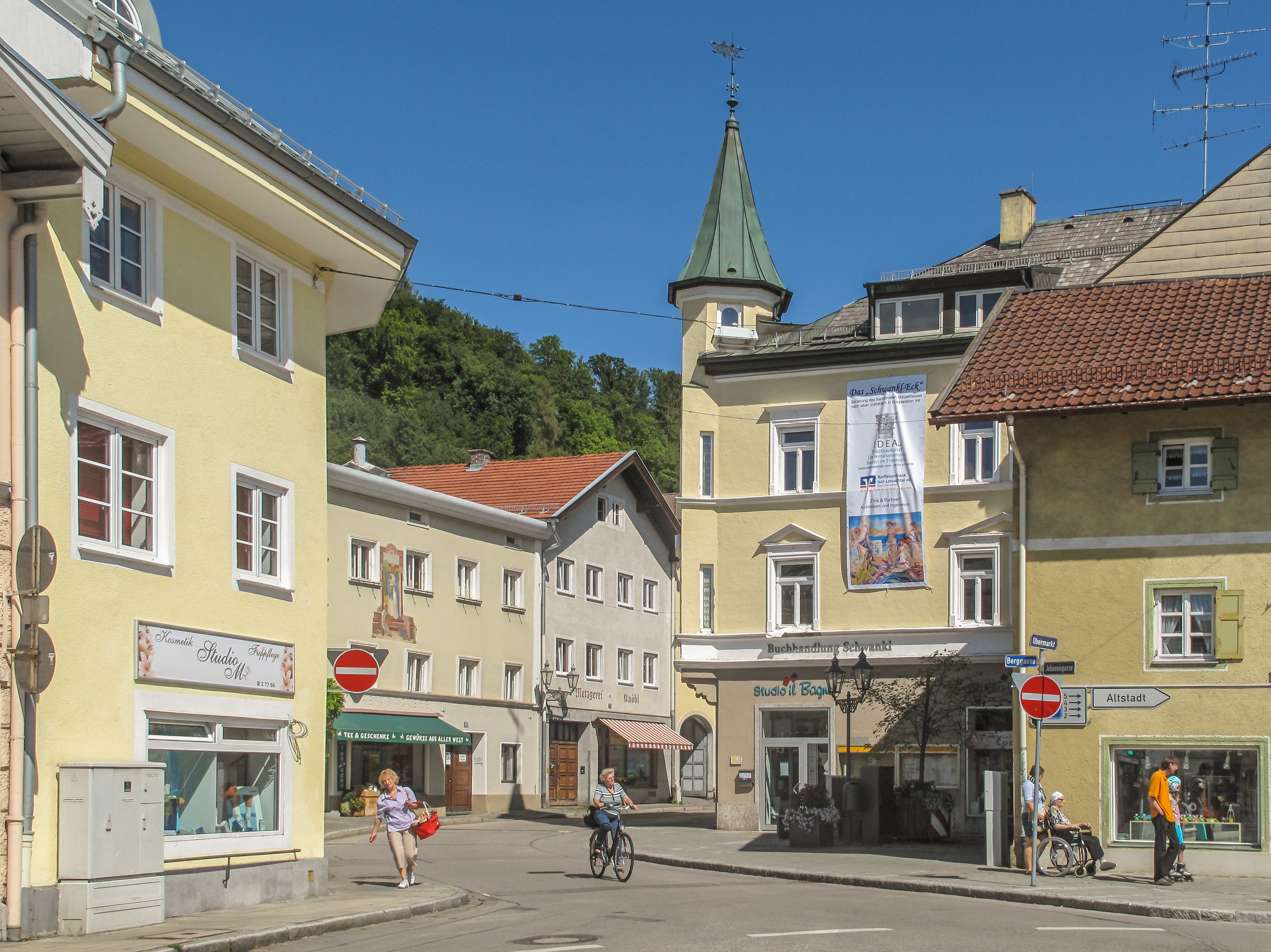 Wolfratshausen, view to a street: Berggasse-Obermarkt